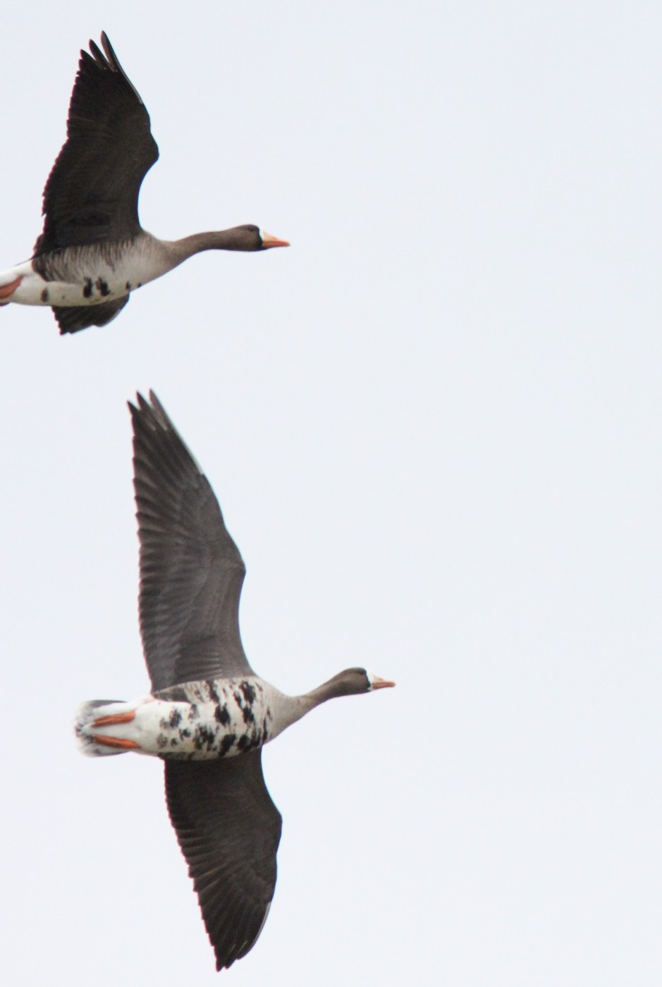 Greater White-fronted Geese Anser albifrons gambelli, Caledonia Sewage Ponds, Kent Co., Michigan